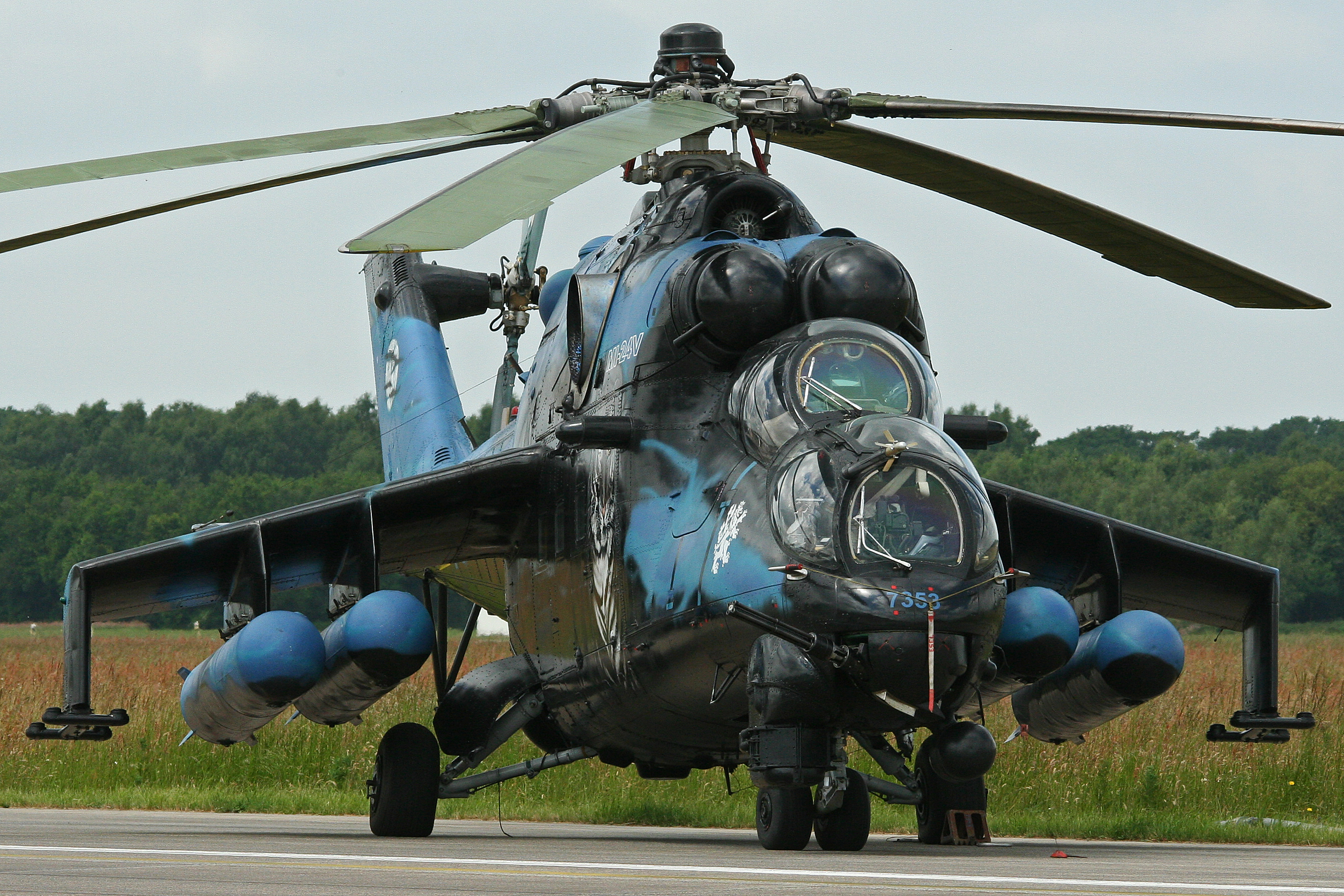 Operated by 221.lbvr Czech AF and based at Namest. This Hind wears an impressive special colour scheme. c/n 087353. On static display at the '100th Anniversary of Dutch military aviation' airshow. Volkel Air Base, Netherlands. 14-6-2013